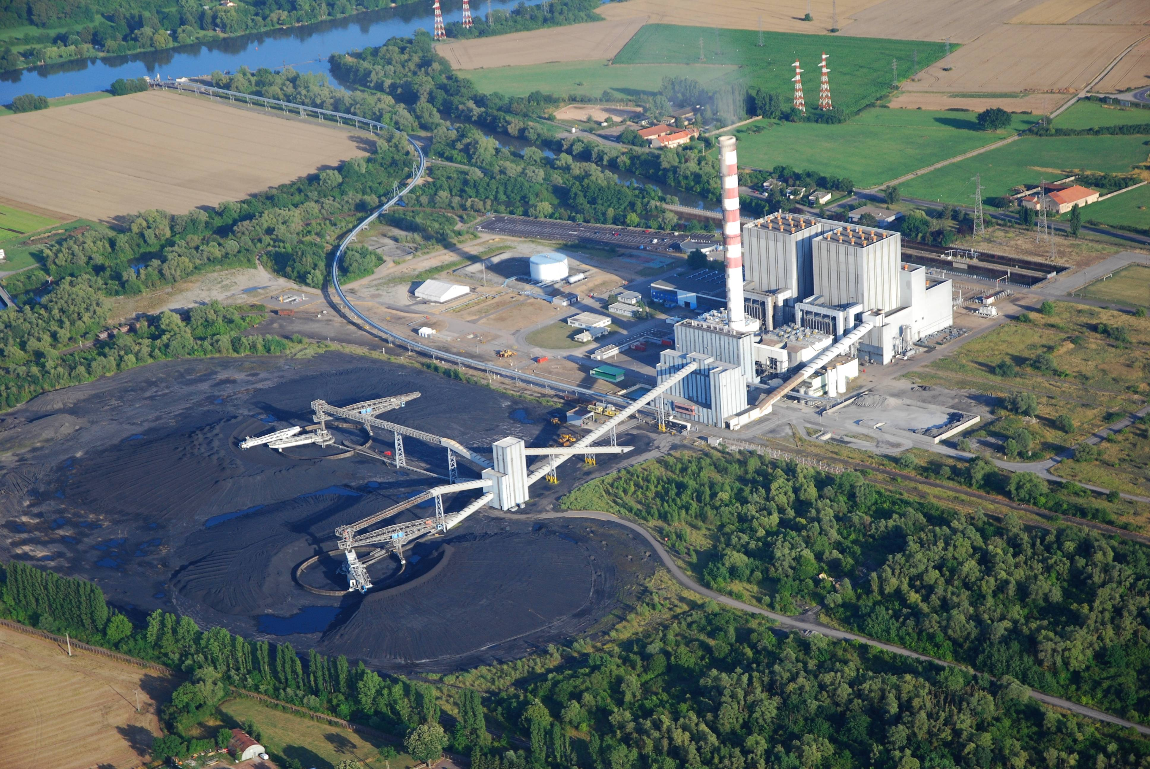 La Maxe power station, France